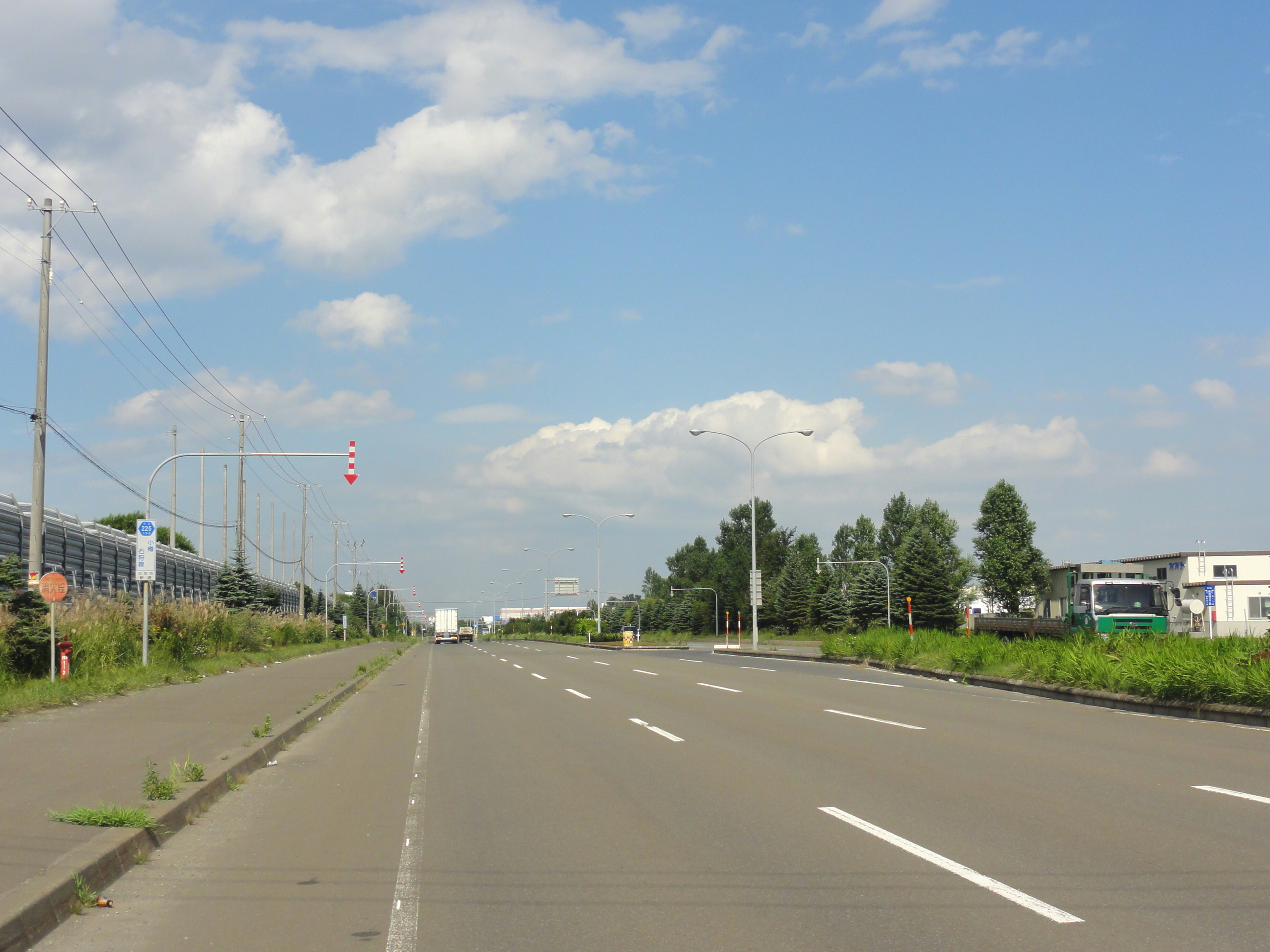 The Hokkaido Prefectural Road Route 225 in Ishikari City